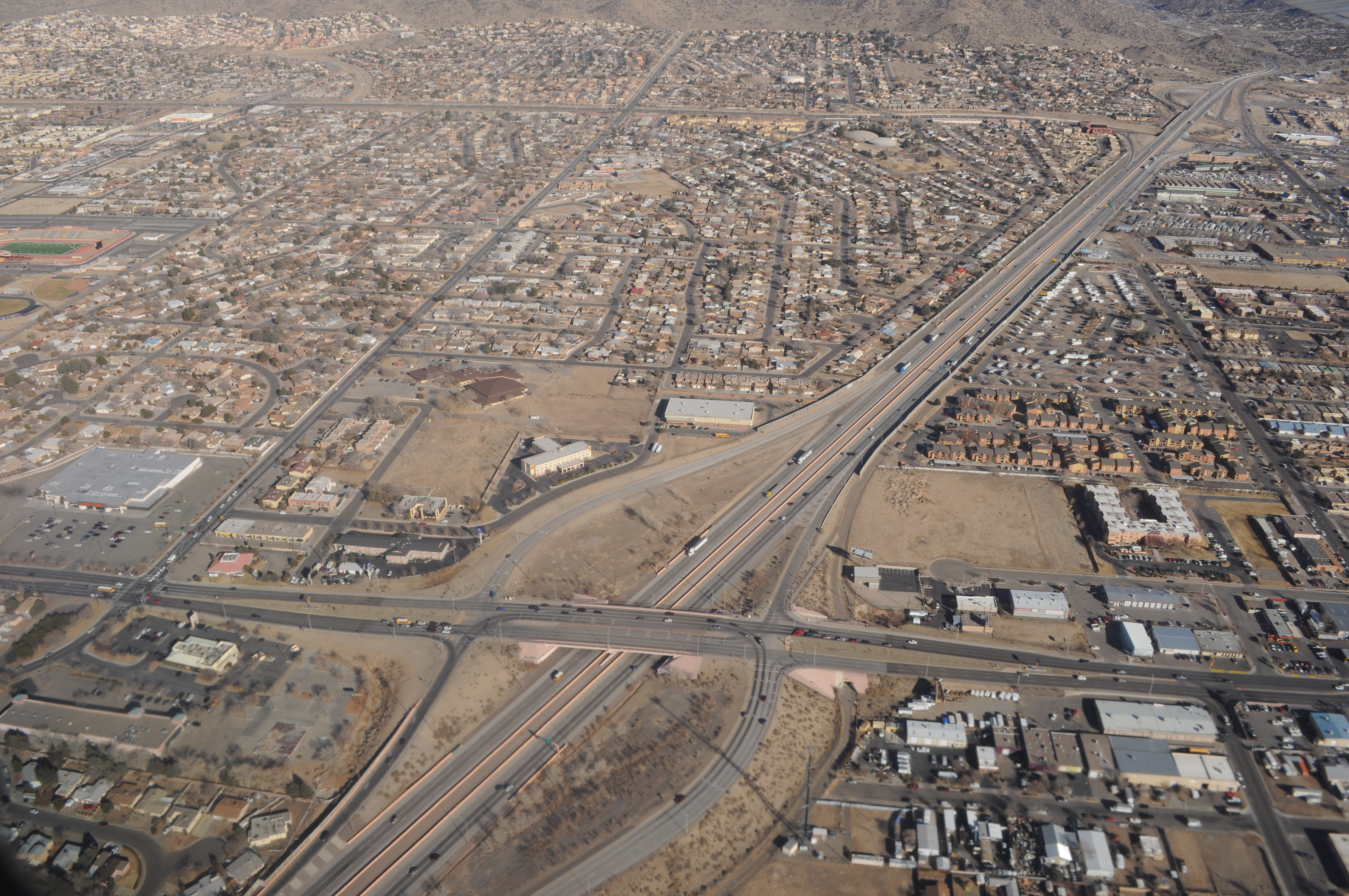 Aerial view of Interstate 40, looking east from roughly the interchange with Juan Tabo Blvd NE, Albuquerque, New Mexico, USA.